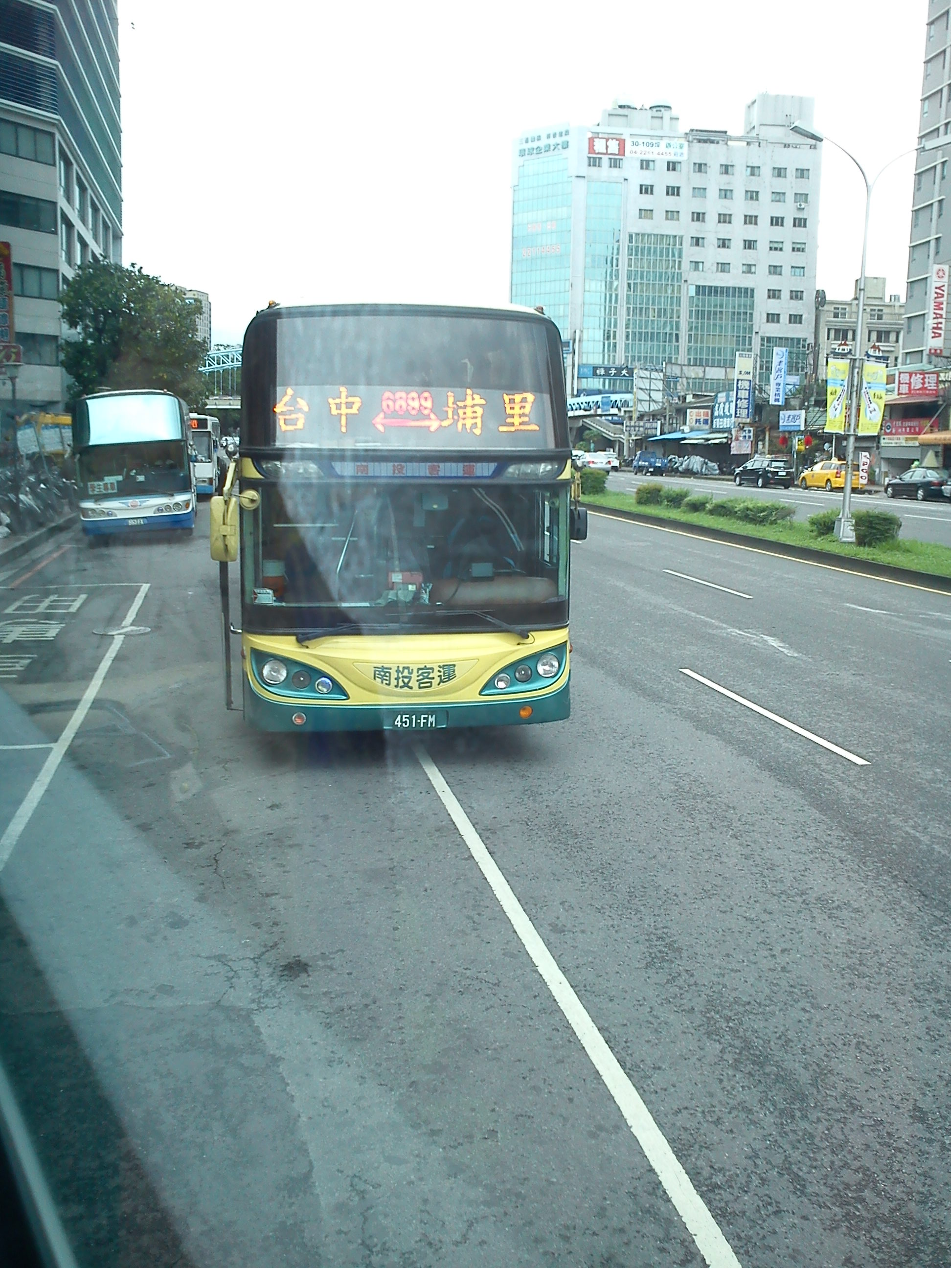 Nantou Bus route 6899 bus 451-FM, taken at Gan Cheng, Taichung